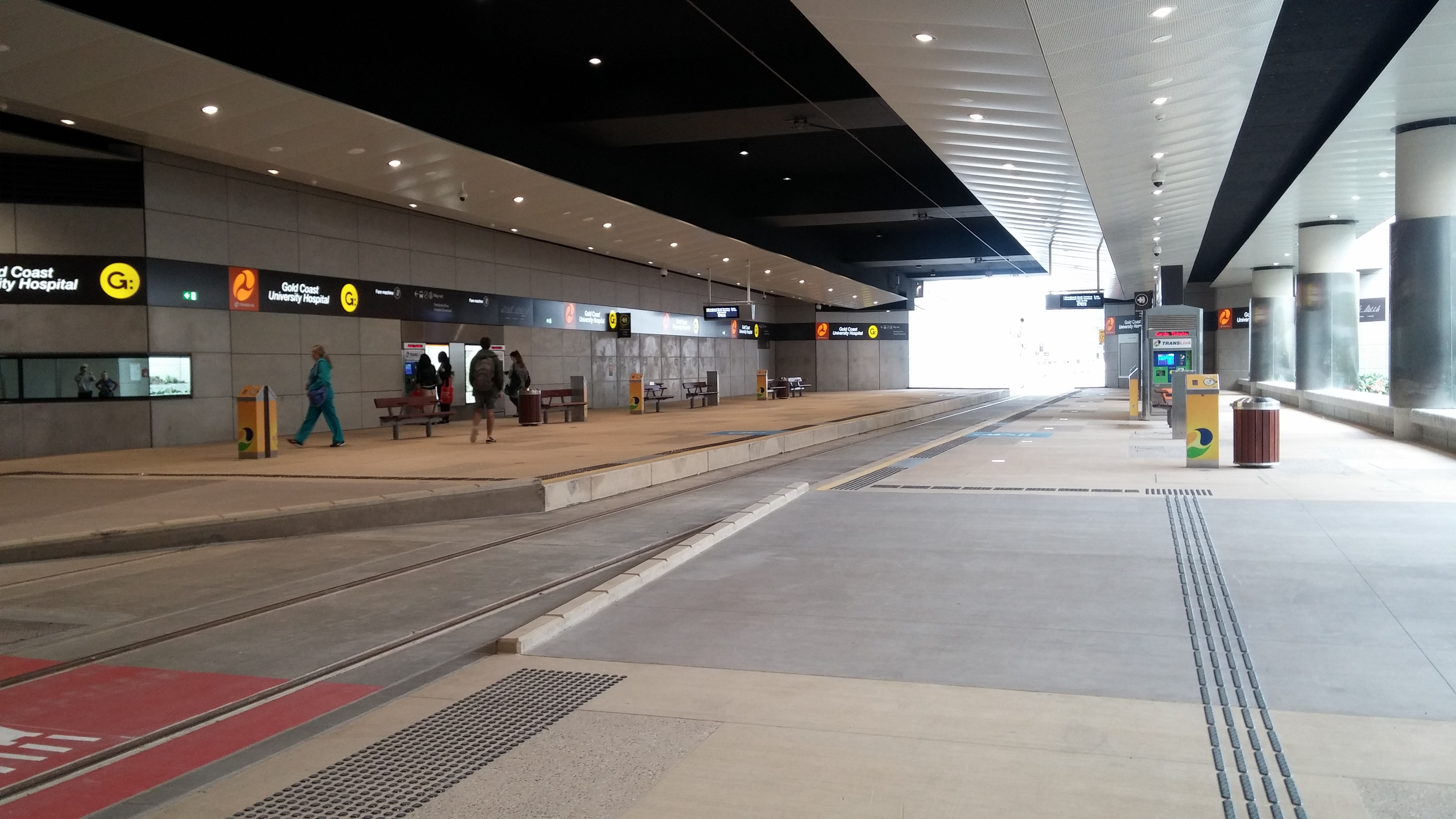 GCUH Light Rail station interior.